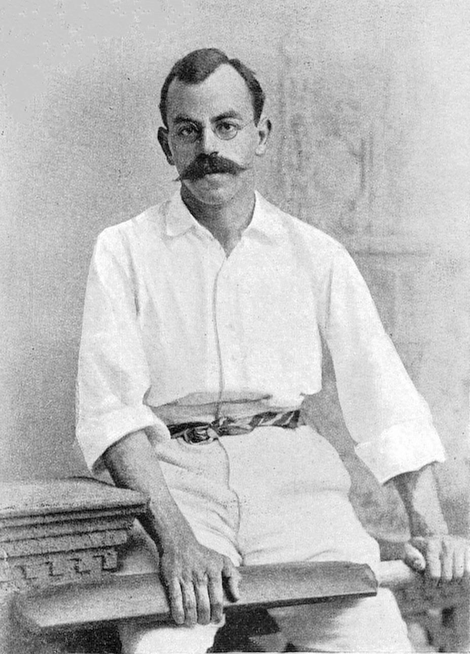 Scan of cricketer George Thornton